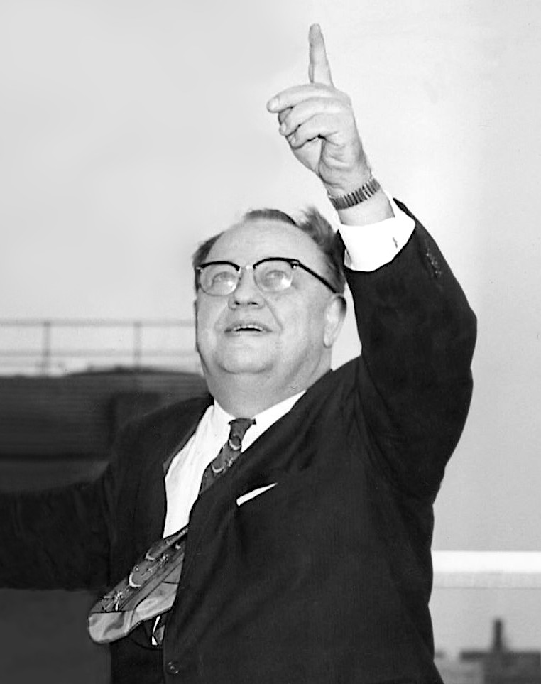 Future Shimer College president Milburn "Pete" Akers, then executive editor of the Chicago Sun-Times, pointing skywards on May 17, 1958. Cropped from File:1958_photo_Roberts_Menshikov_Akers_Chicago.jpg